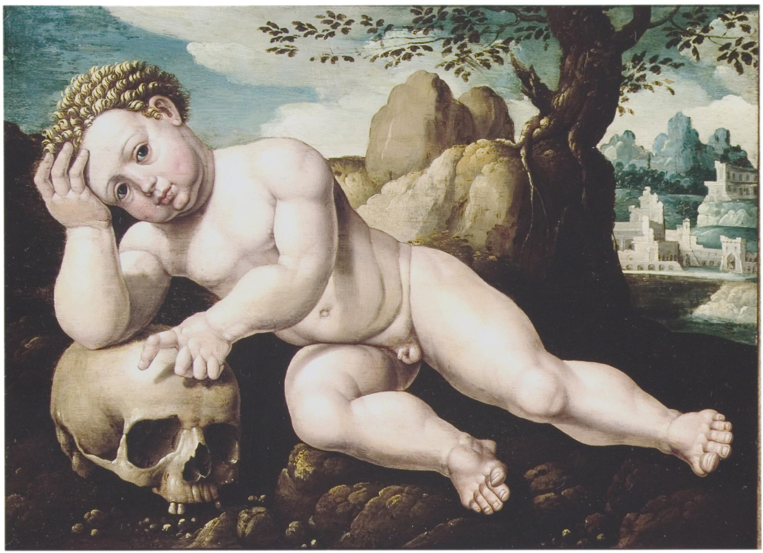 John the Baptist reclining on a skull in a classical landscape, known as genre "Nascendo Morimur".